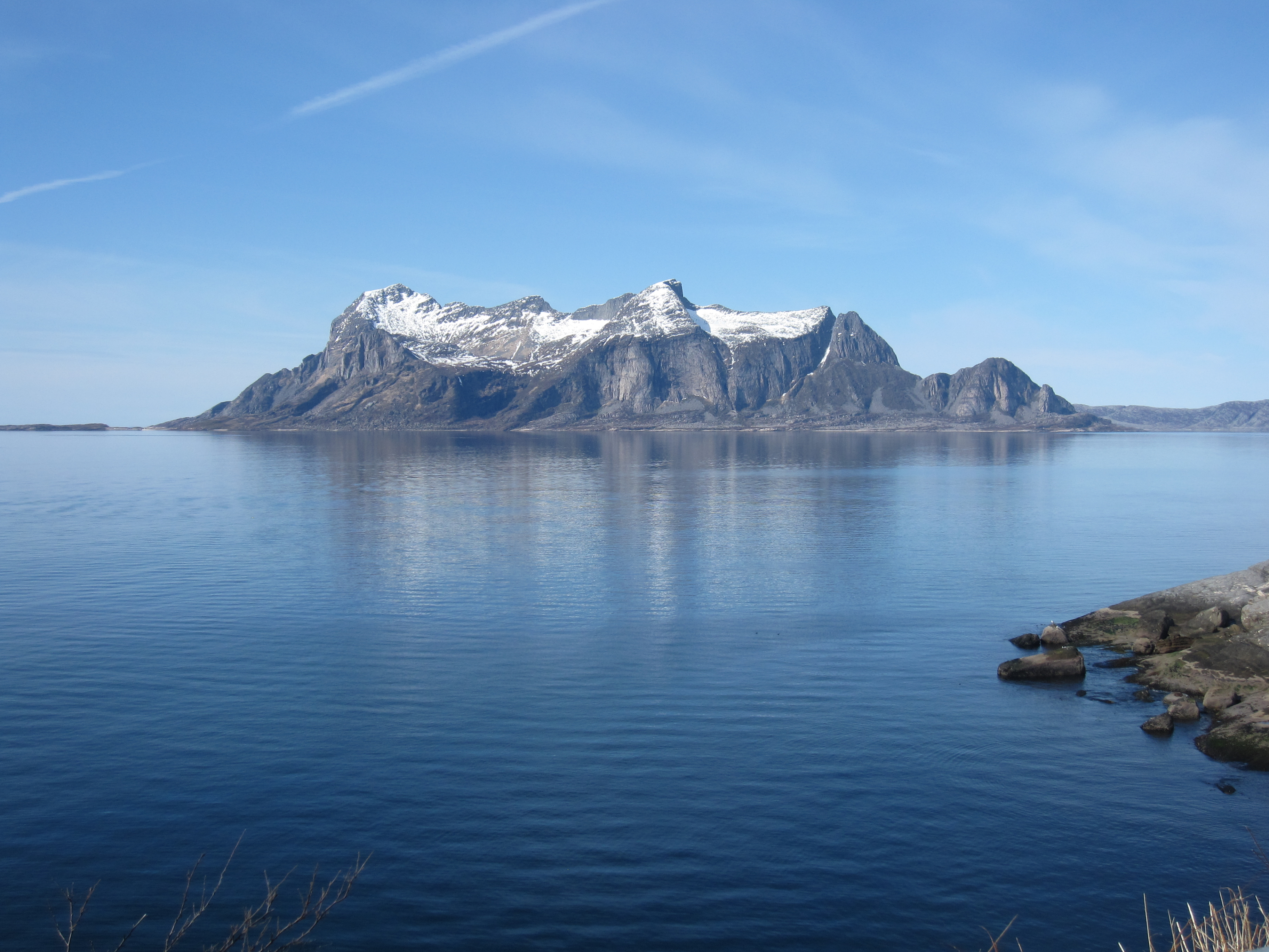 Fugløya as seen from Novika early May 2010.